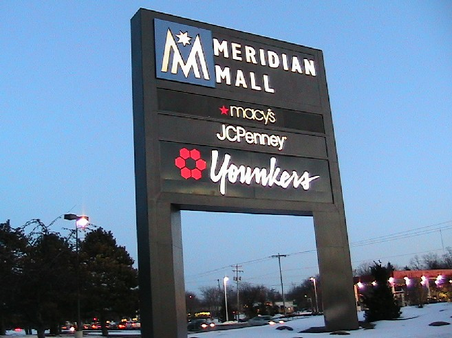 Meridian Mall entrance sign on Grand River Avenue and Marsh Road, east of Lansing in Okemos, Michigan